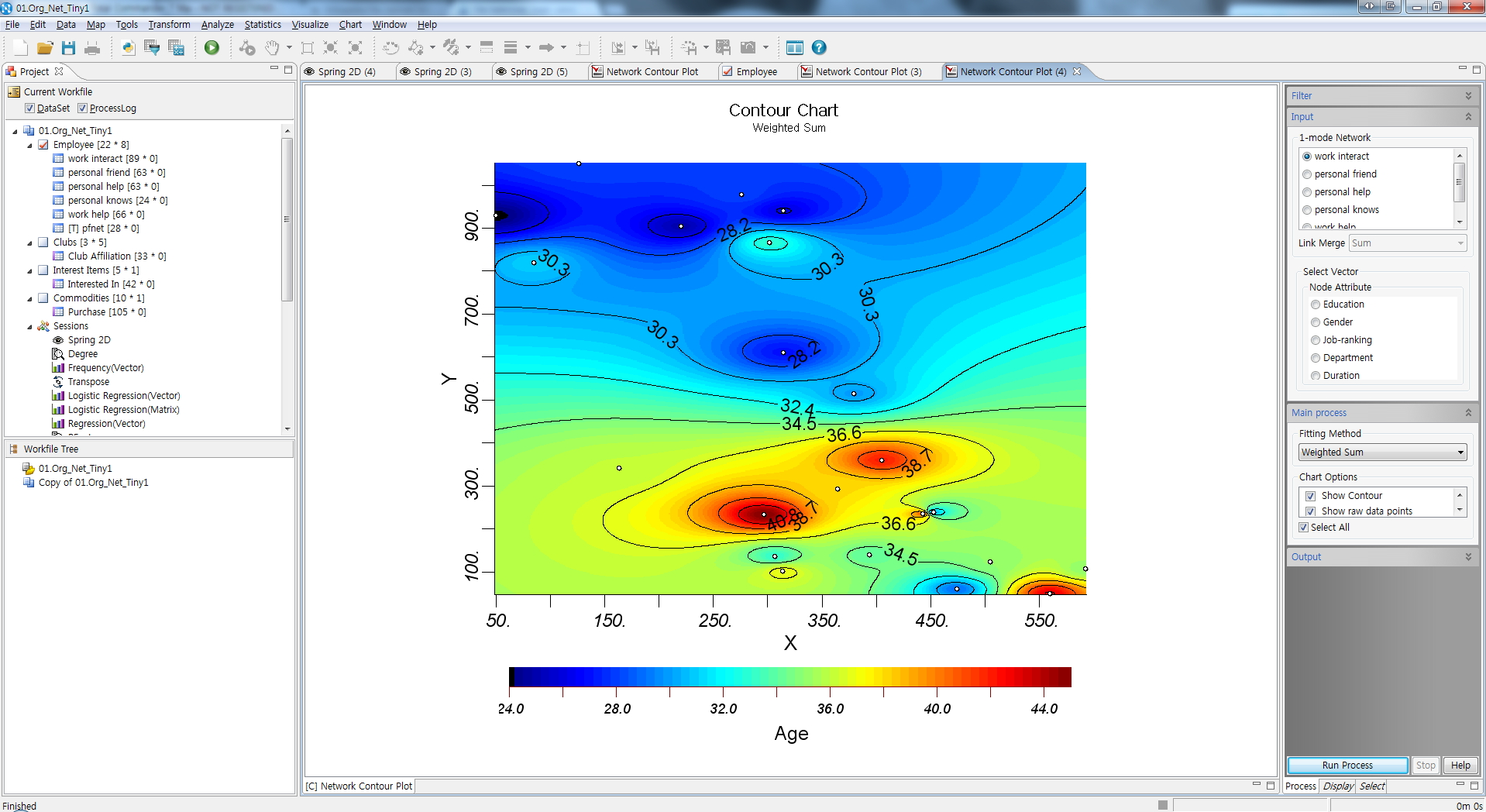 This image file is captured by Cyram Inc. who created the product netminer. This image file shows the main window of netminer.